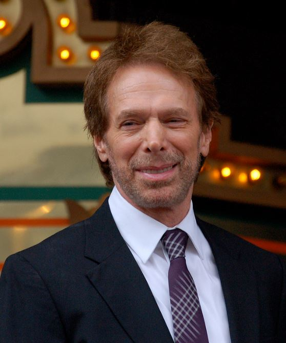 Jerry Bruckheimer at a ceremony to receive a star on the Hollywood Walk of Fame.